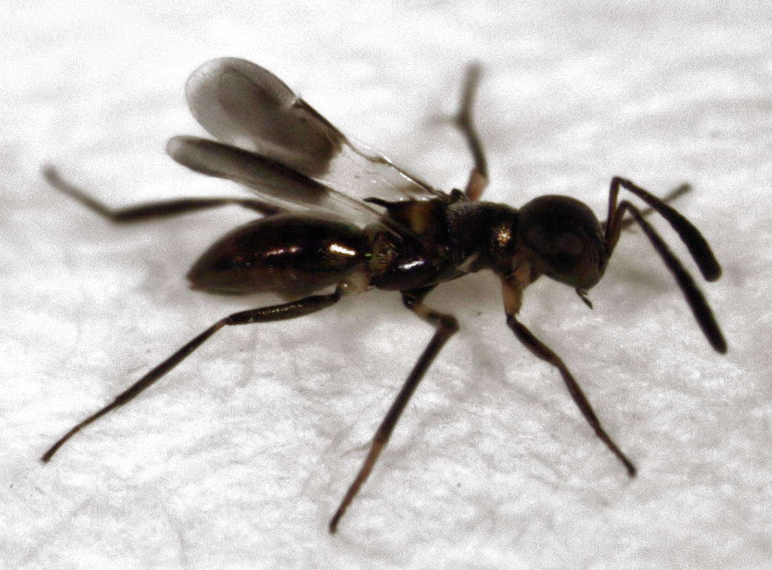 Cheiloneurus flaccus, adult female (length about 2 mm)